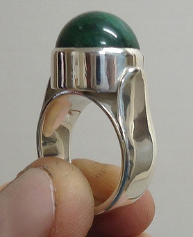 Cropped version of for use at the enwiki Architectonic jewellery article. Cropped to remove blank space and portions of human finger.